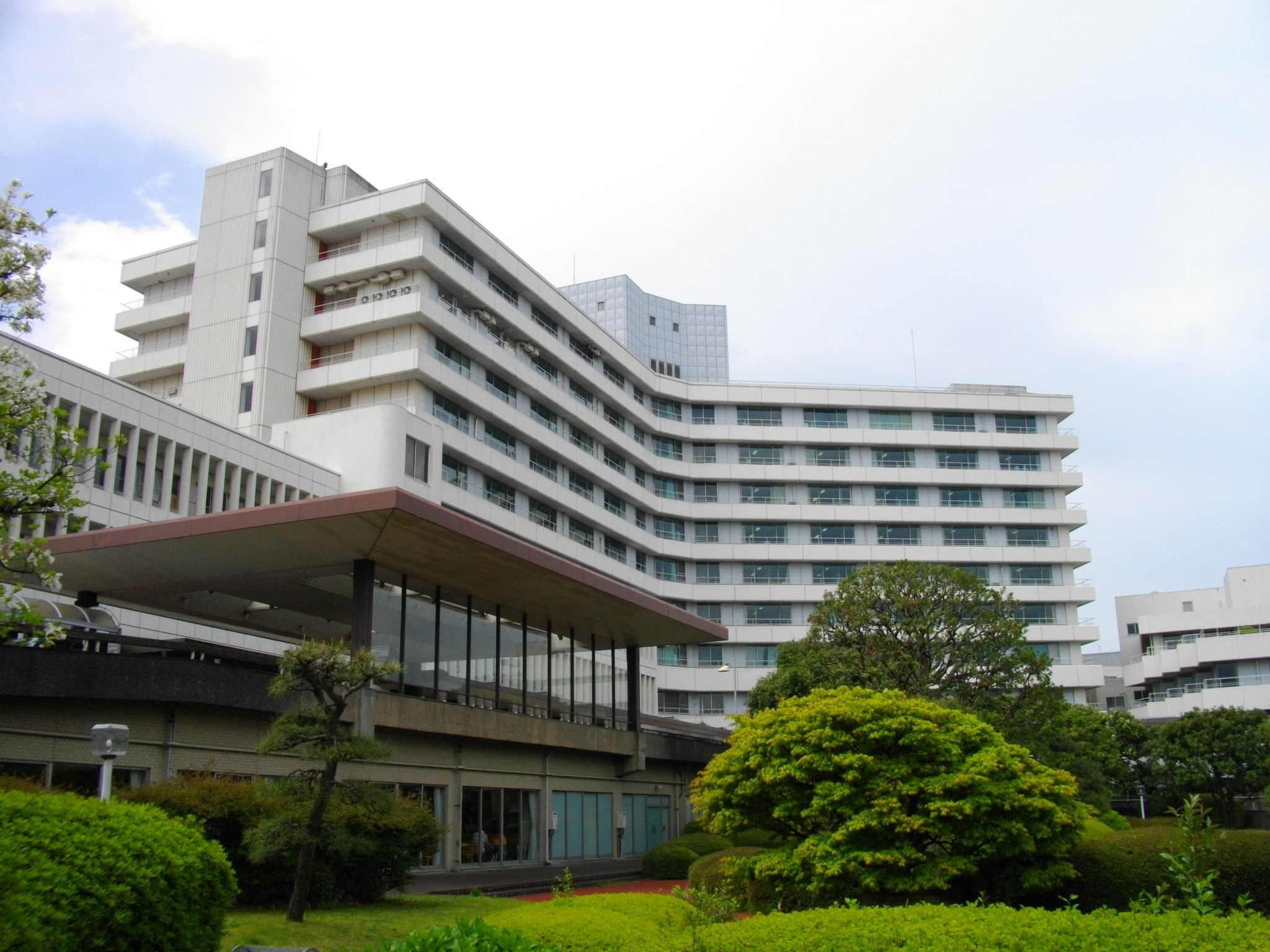 Kitasato University Hospital